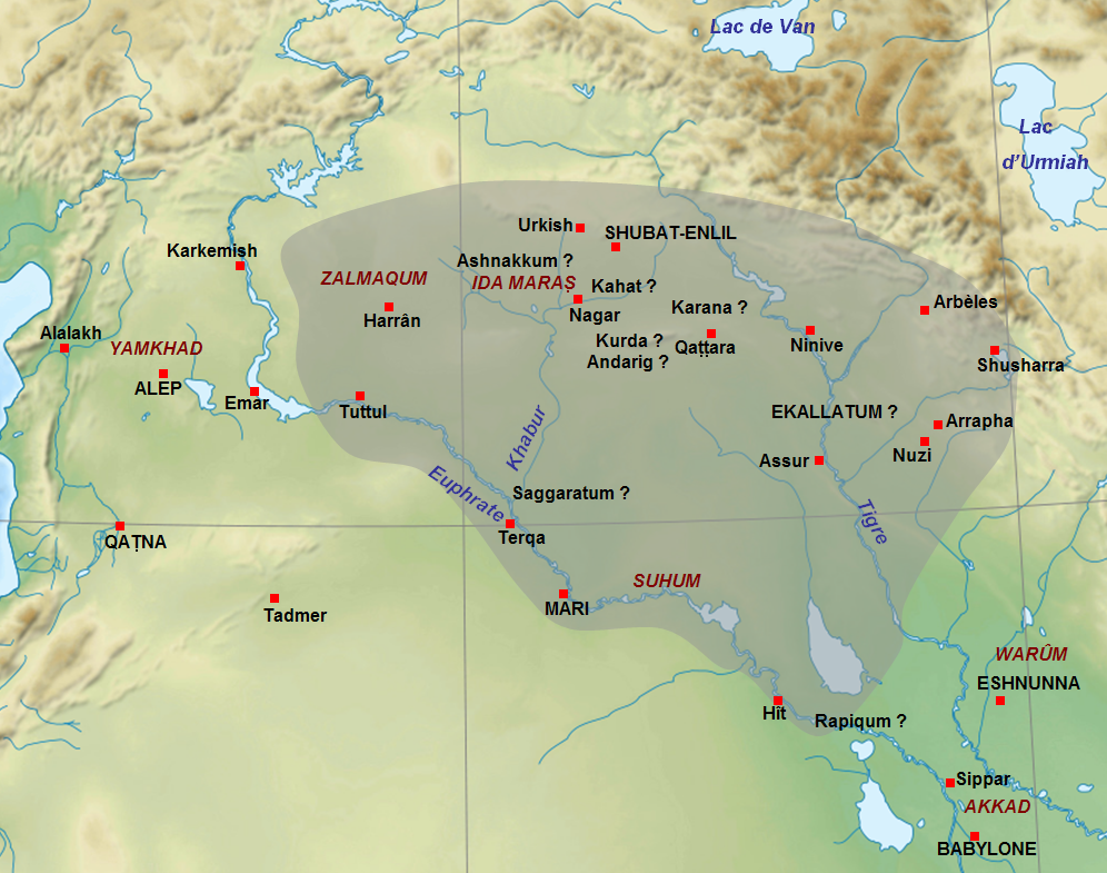 Map of the approximate extension of the kingdom of Samsi-Addu/Shamshi-Adad (1815-1775 BC) just before his death, with the territories given to his sons Ishme-Dagan (around Ekallatum) and Yasmakh-Addu (around Mari). The names of cities in capitals letters are the capitals of the main kingdoms of the Middle East at this time. The names of cities with question mark are for uncertain locations. Adapted from F. Joannès (dir.), Dictionnaire de la civilisation mésopotamienne, Paris, 2001, p. 751 (map by M. Sauvage) and D. Charpin, Hammu-rabi de Babylone, Paris, 2003, p. 306.